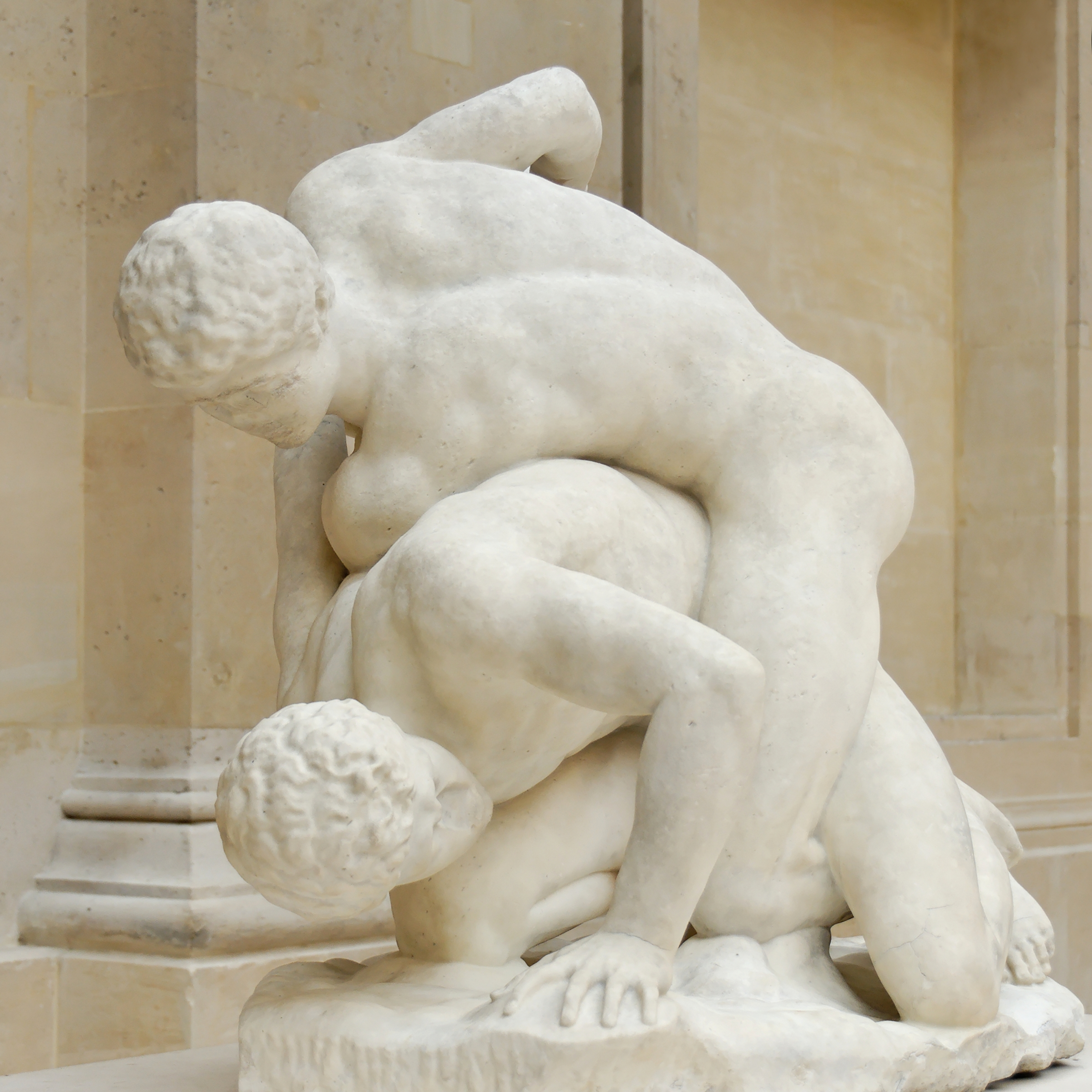 Copy of the celebrated group of the “Uffizi wrestlers”, stored in the Galleria degli Uffizi in Florence, Italy. Marble, 1684–1688. The statue was first installed in the park of Versailles, then transferred in 1689 to the park of Marly and in 1797 to the Tuileries Gardens.